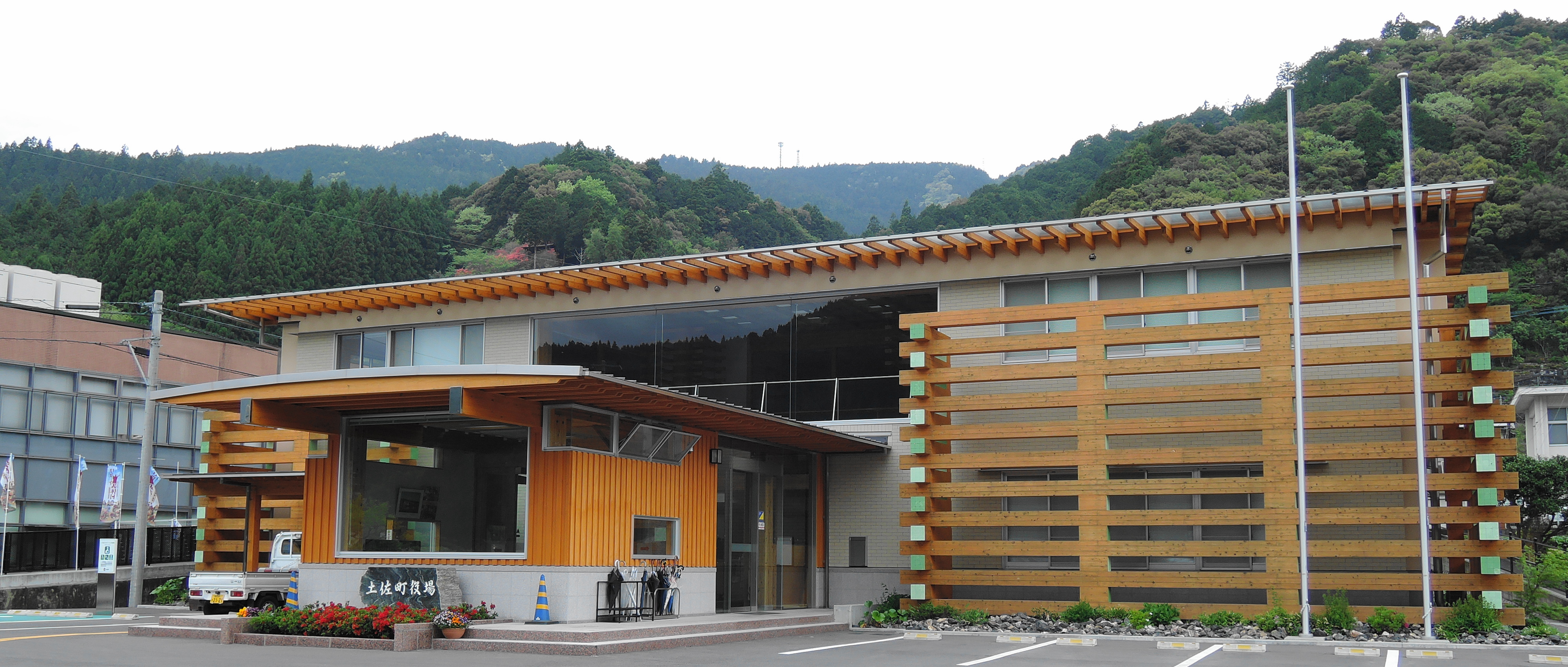 Tosa town hall,Kochi prefecture,Japan